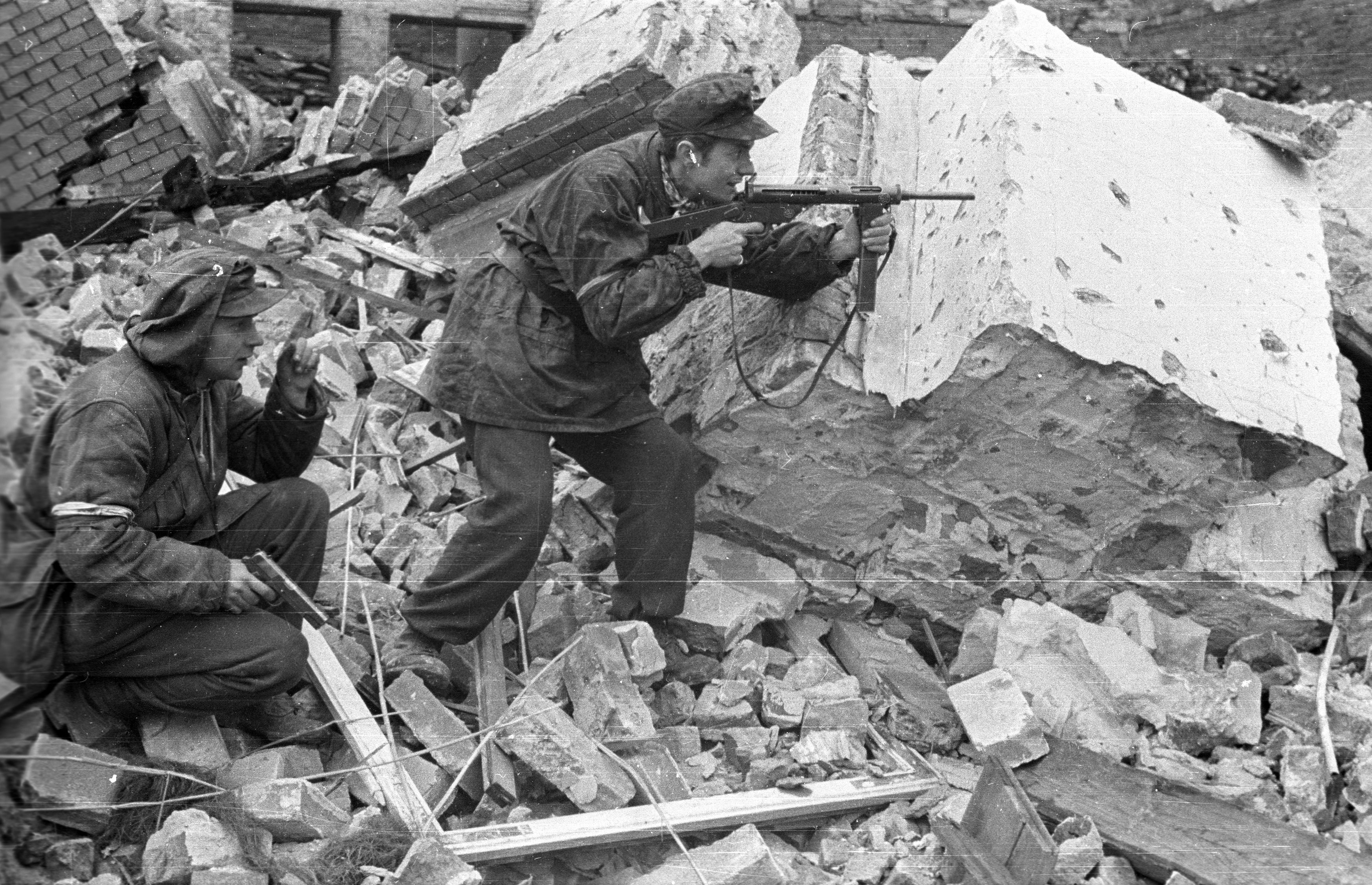 WarsawUprising: Henryk Ożarek "Henio" (left) and Tadeusz Przybyszewski "Roma" (right) from "Anna" Company of "Gustaw" Battalion in the region of Kredytowa-Królewska Street. "Henio" holds "Vis" pistol and "Roma" shoots from Błyskawica submachine gun.